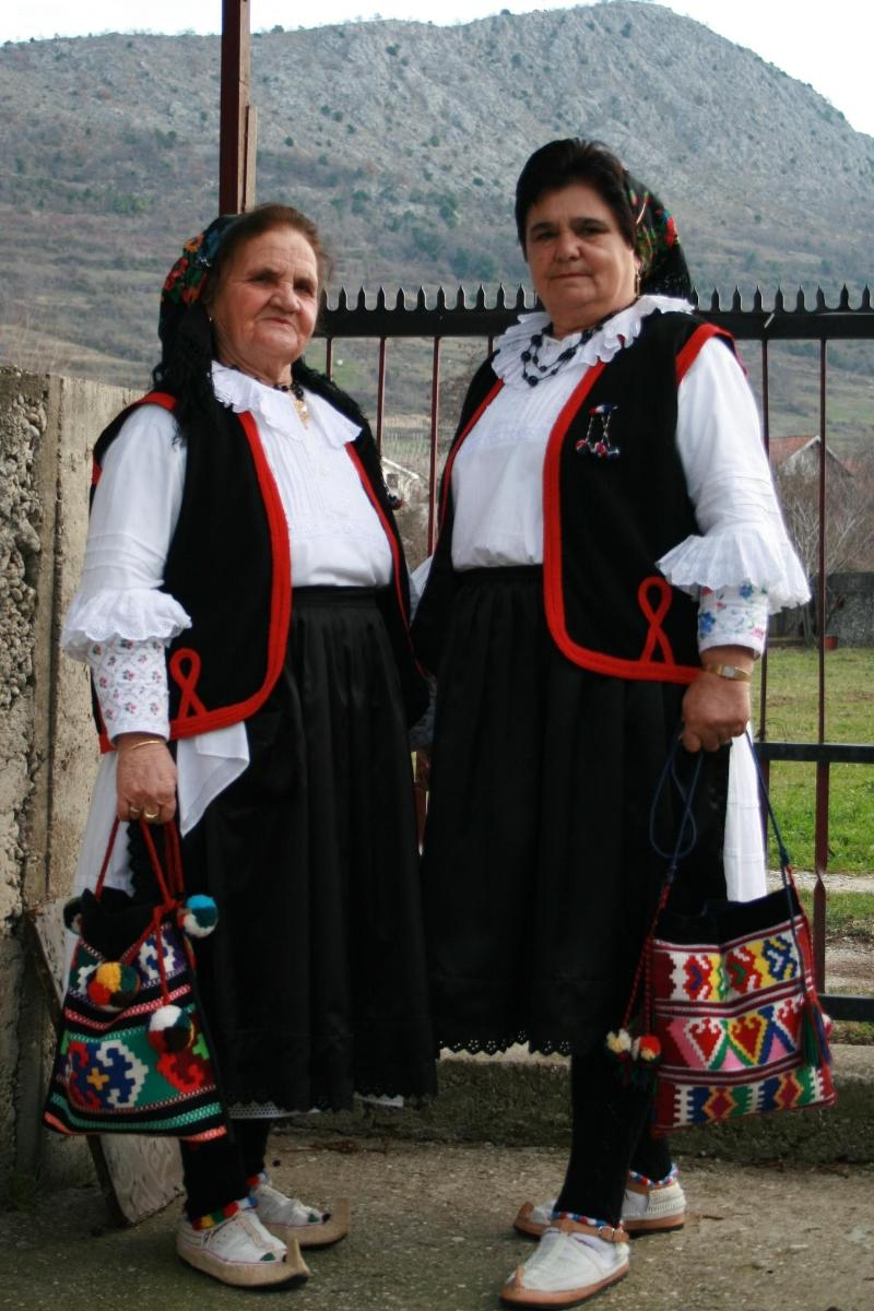 Two female ganga-performers from HKUD Radišići (Ljubuški, Bosnia and Herzegovina)